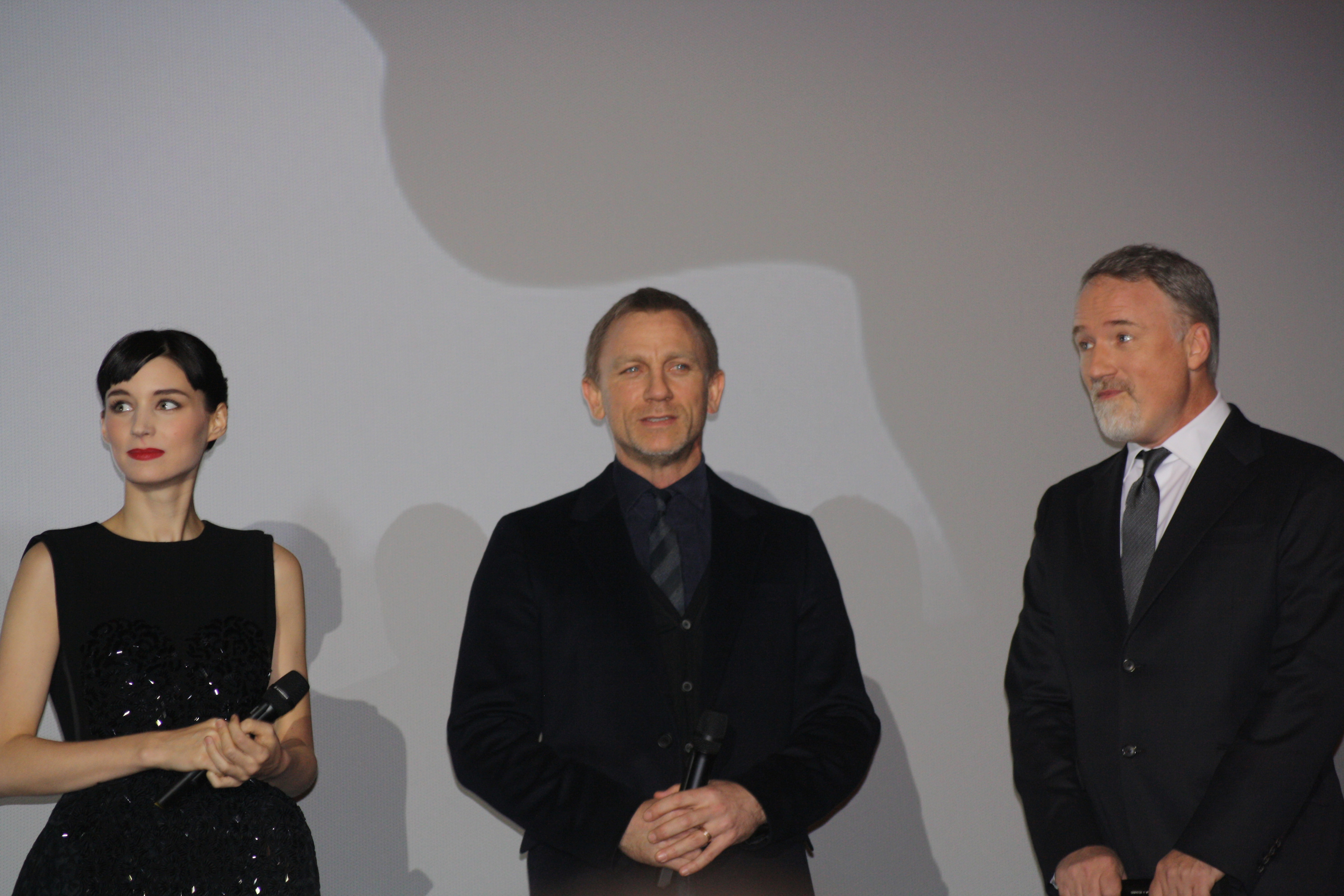 Rooney Mara, Daniel Craig and David Fincher at the Paris premiere of their film The Girl with the Dragon Tattoo.